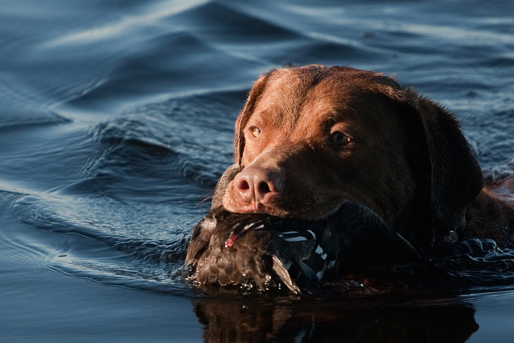 A Chesapeake Bay Retriever returning a goose.